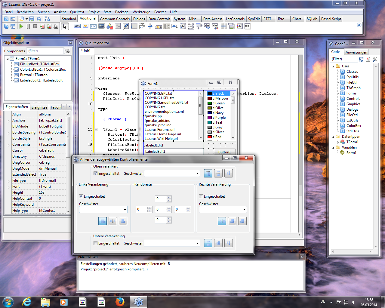 Screenshot of Lazarus 1.2 on Windows 7